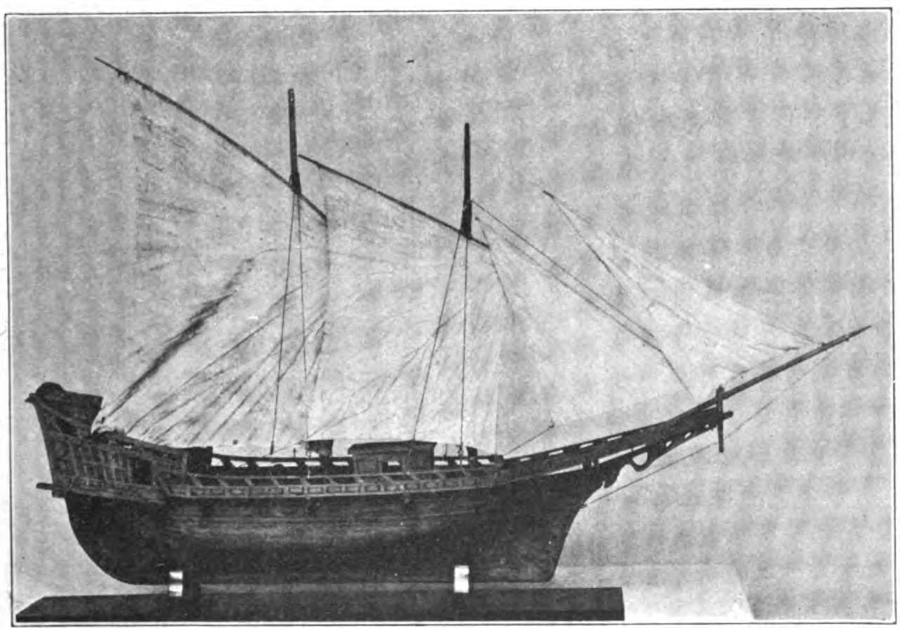 A model of Dayak lug-rigged prahu called "Bajak". Collected by Dr. G. Brown Goode.